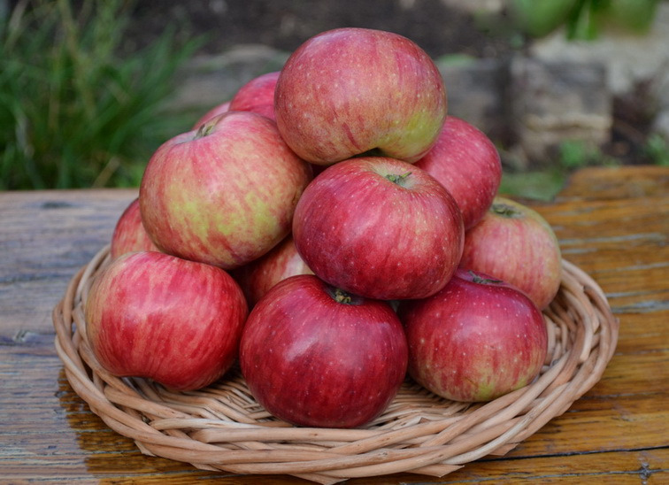 Анис полосатый фото В.Брыкина